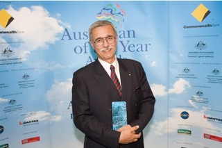 Philip Wollen - Australian philanthropist, Animal rights activist. Australian of the Year (Victoria) award - 2007